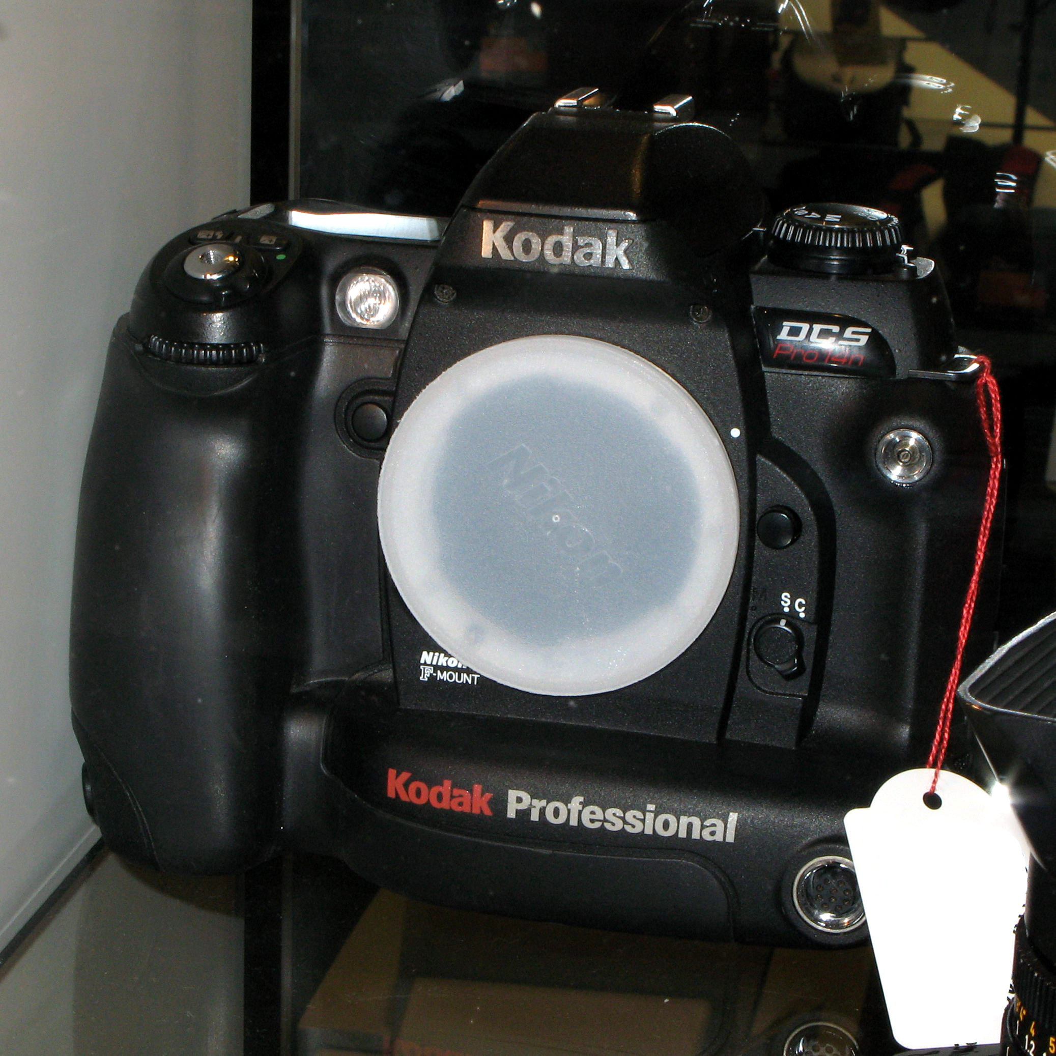 Kodak DCS Pro 14n